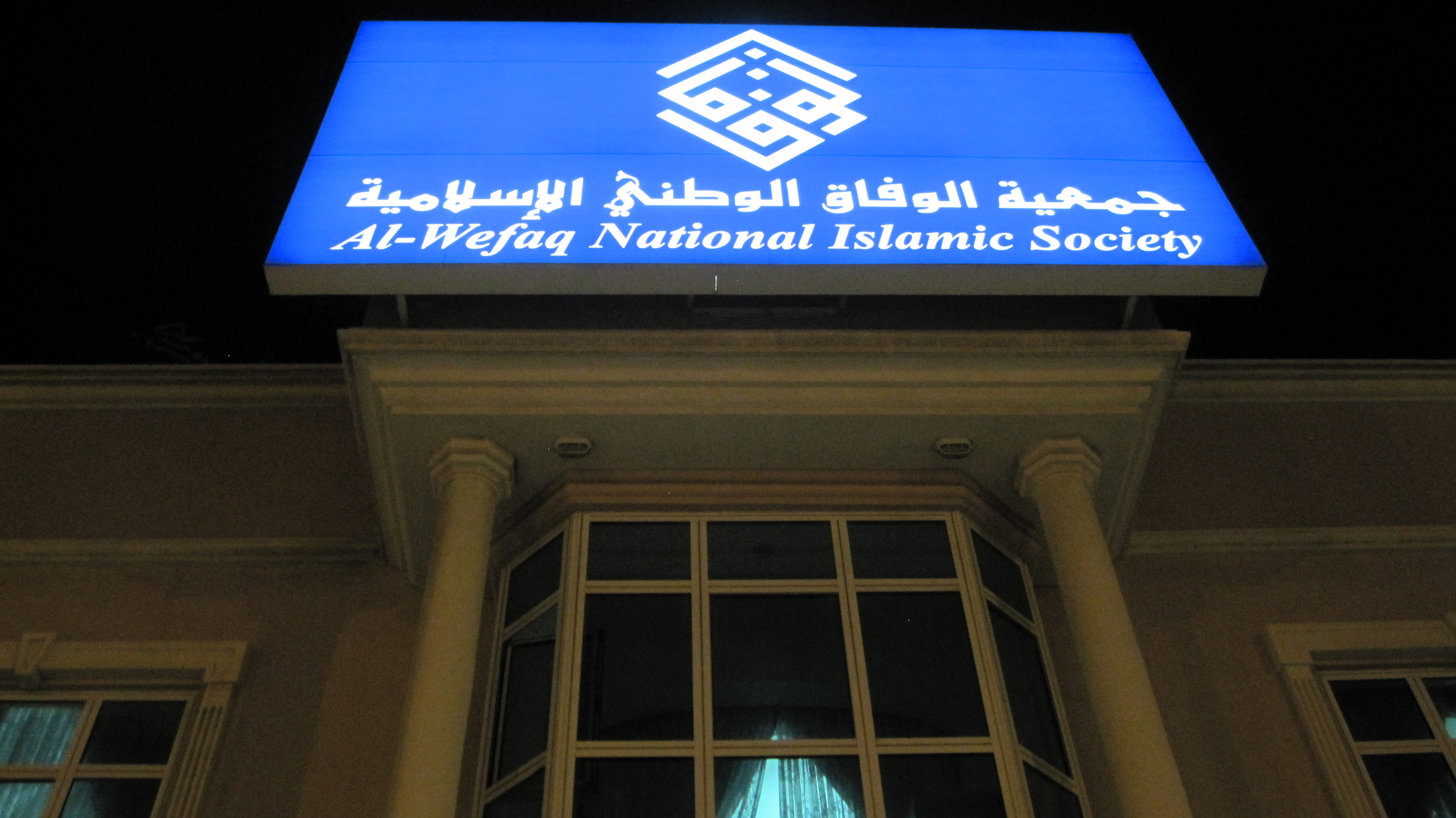 The Shia Islamist opposition party recently resigned from parliament due to its belief that government reforms were nonexistent.